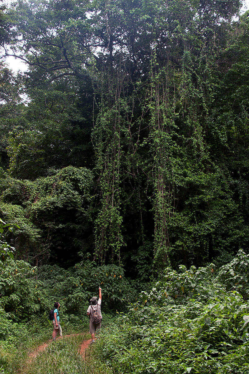 A giant specimen of a Climbing nettle, a soft woody liane, growing in a clearing of the Chirinda Forest at Mount Selinda in eastern Zimbabwe